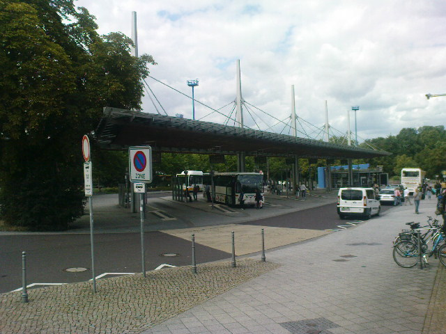 bus station magdeburg